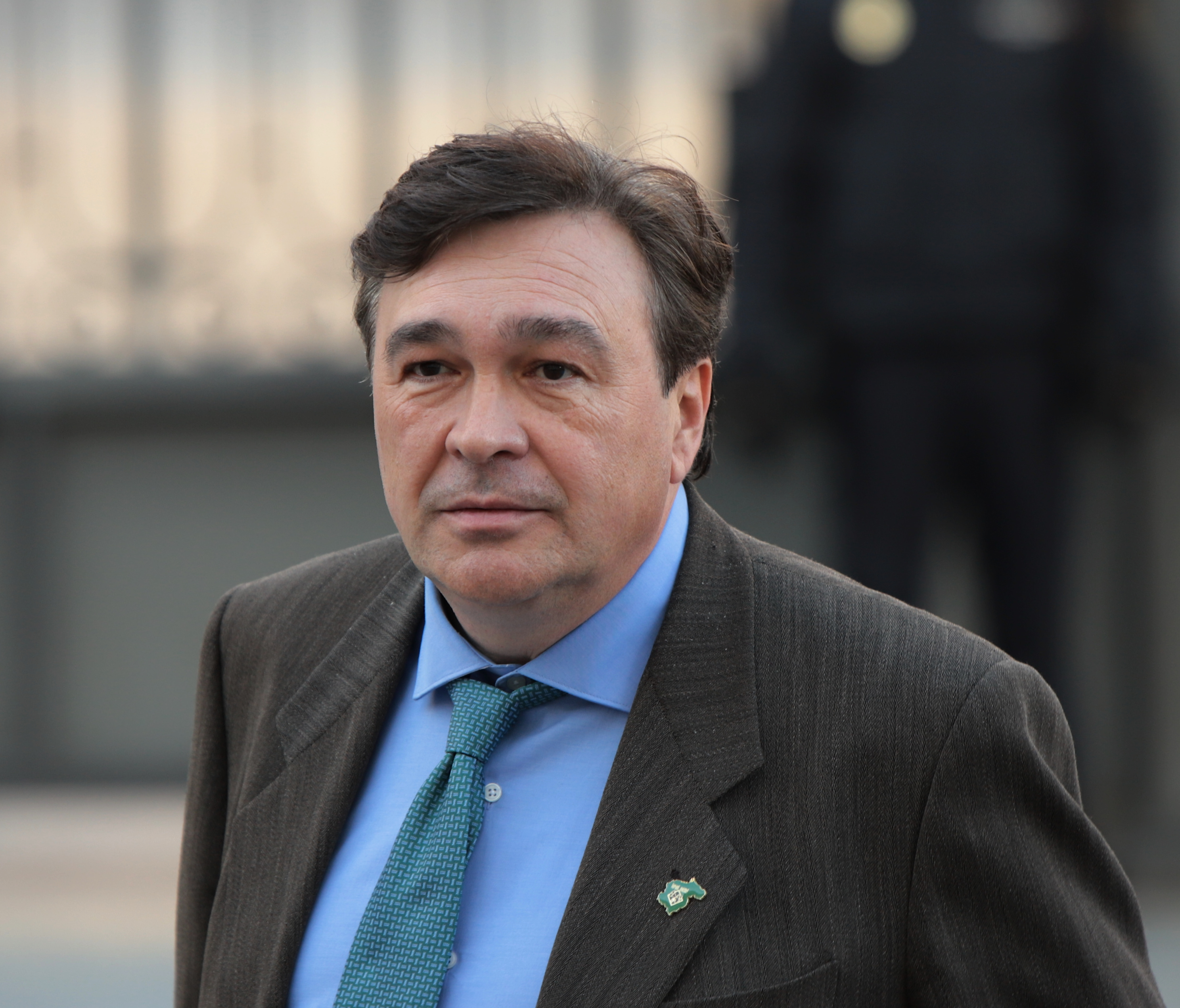 Tomás Guitarte leaves the parliament building after the first session of the newly elected congress.